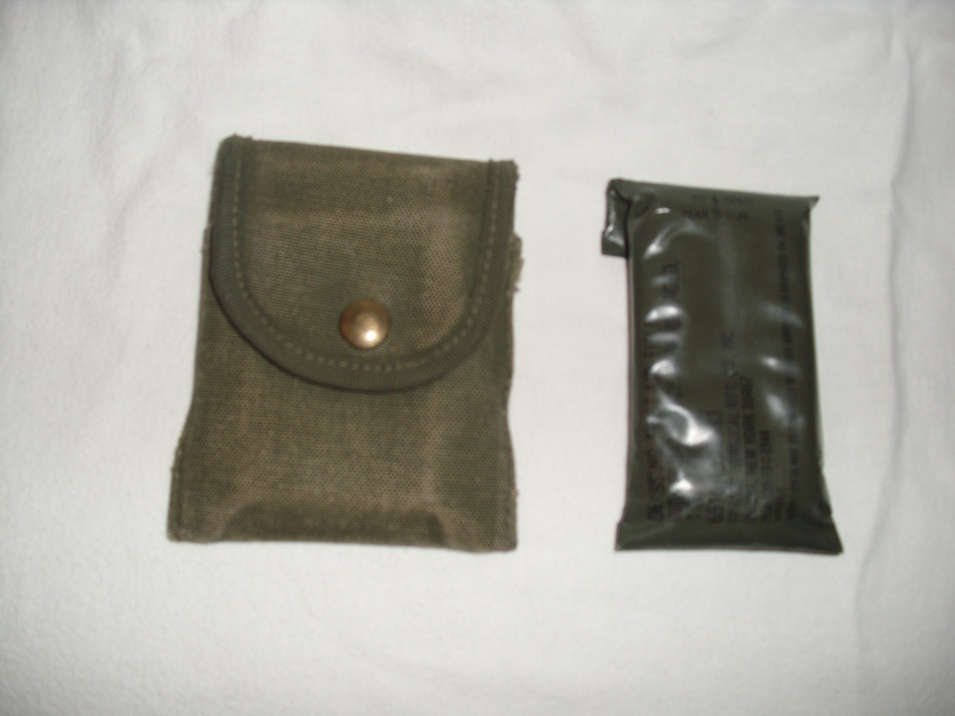 Case, first aid packet or lensatic compass, M1956